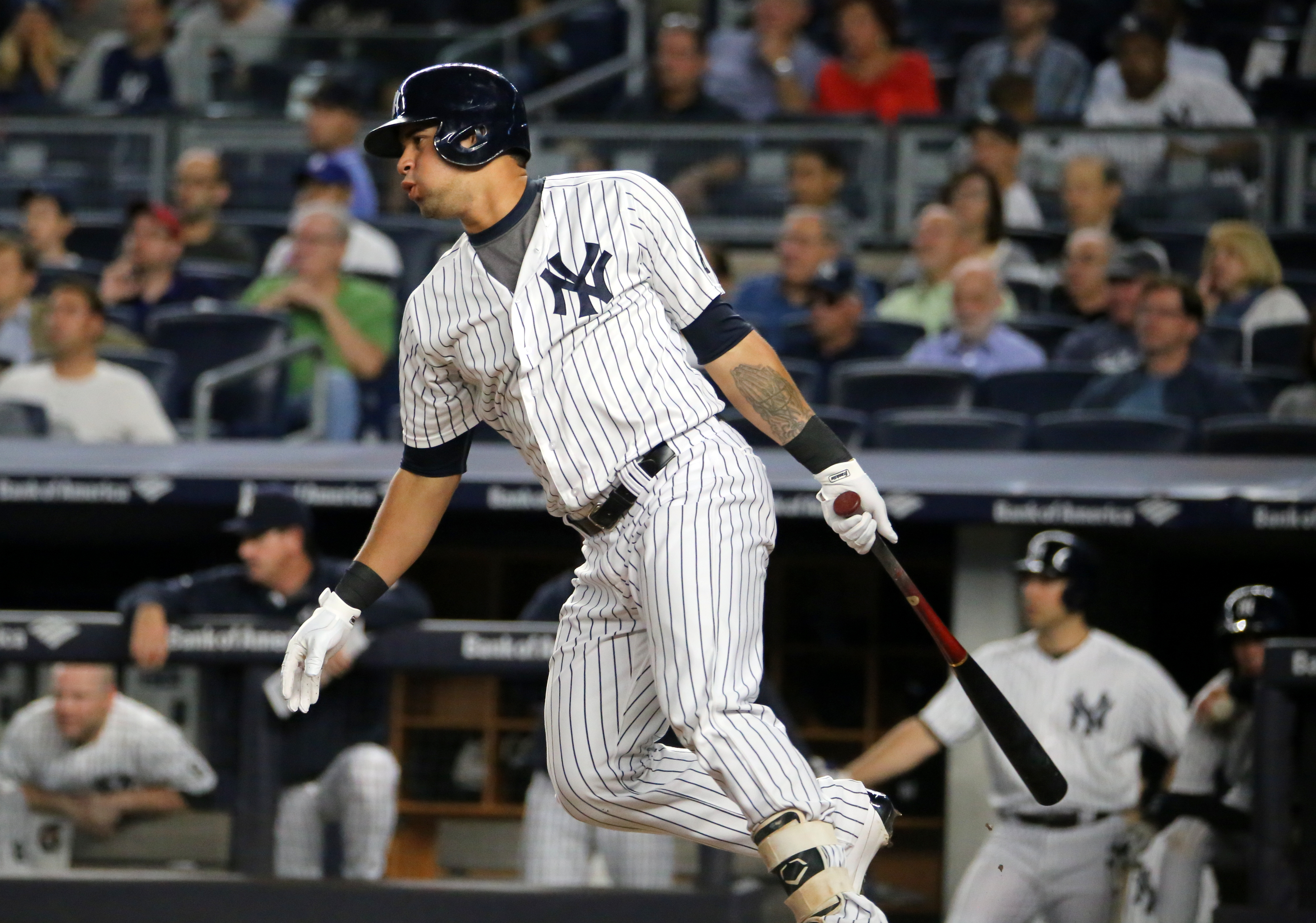 New York Yankees DH Gary Sánchez grounds out in the first inning of a game against the Los Angeles Dodgers at Yankee Stadium in the Bronx, New York, NY on September 13, 2016